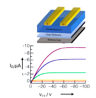 WaseemFig12